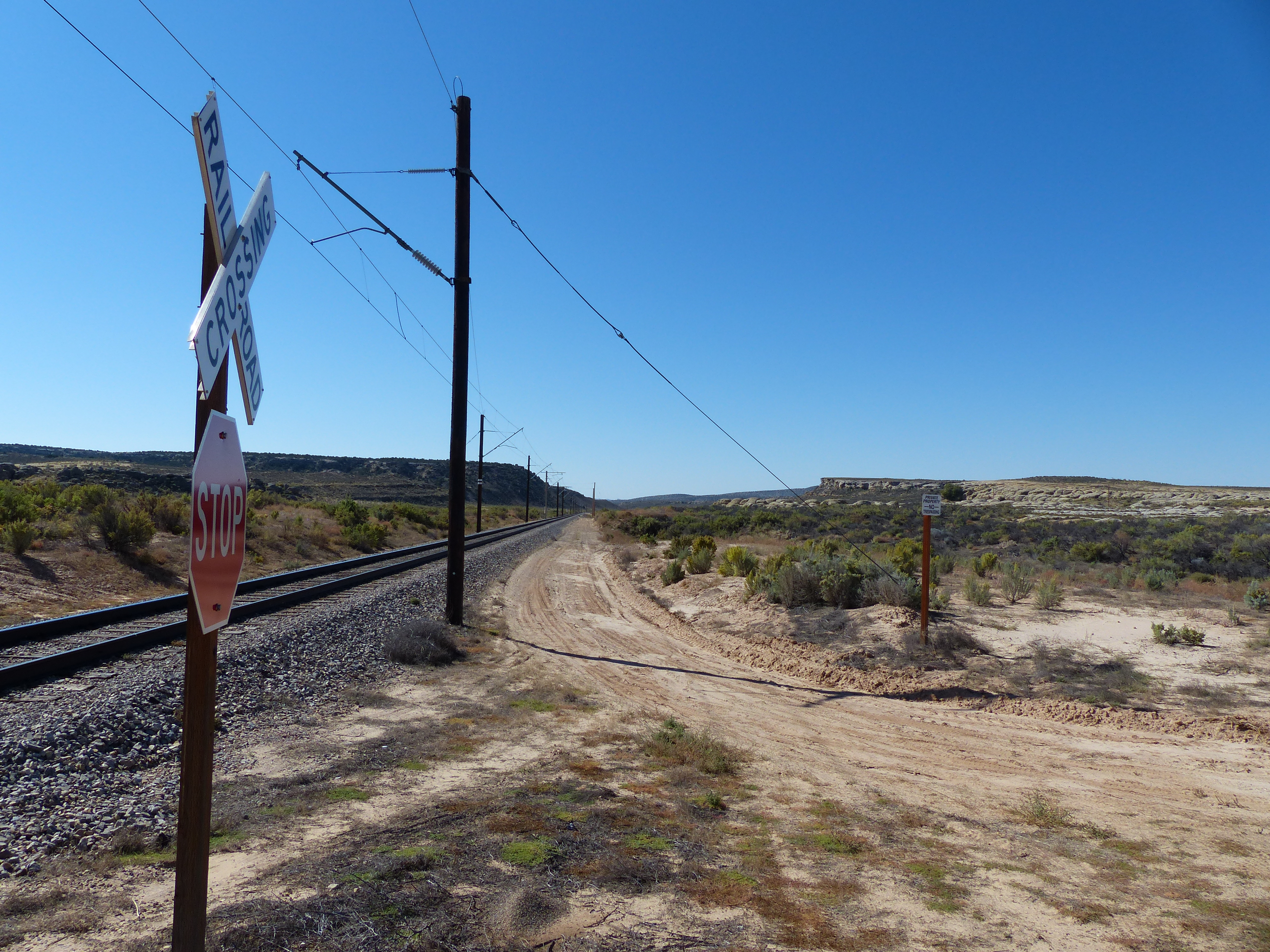 The Deseret Power Railroad where it is crossed by Dripping Rock Road near Dinosaur, CO.